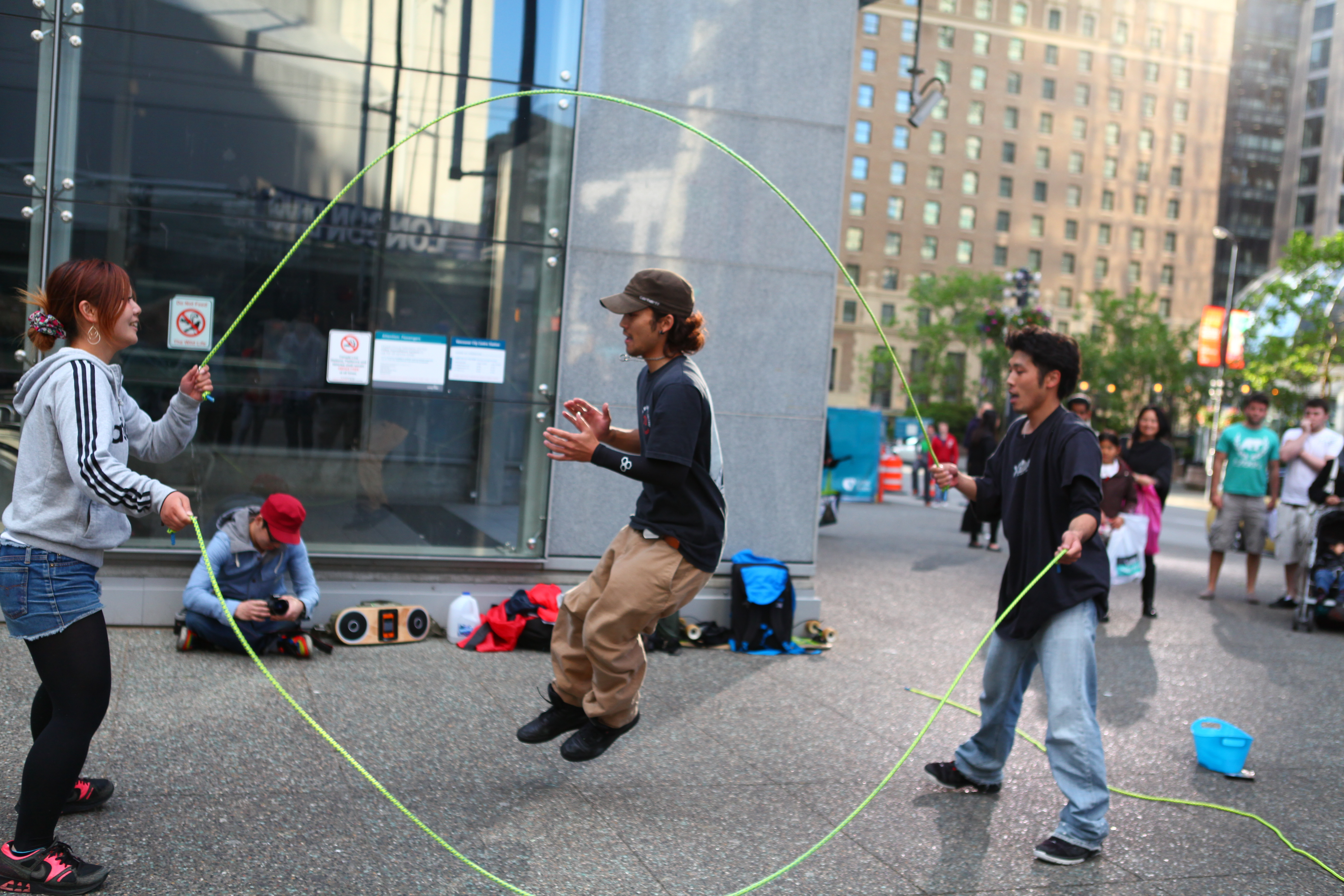 Japanese Double Dutch Team "祭 - MATSURI"